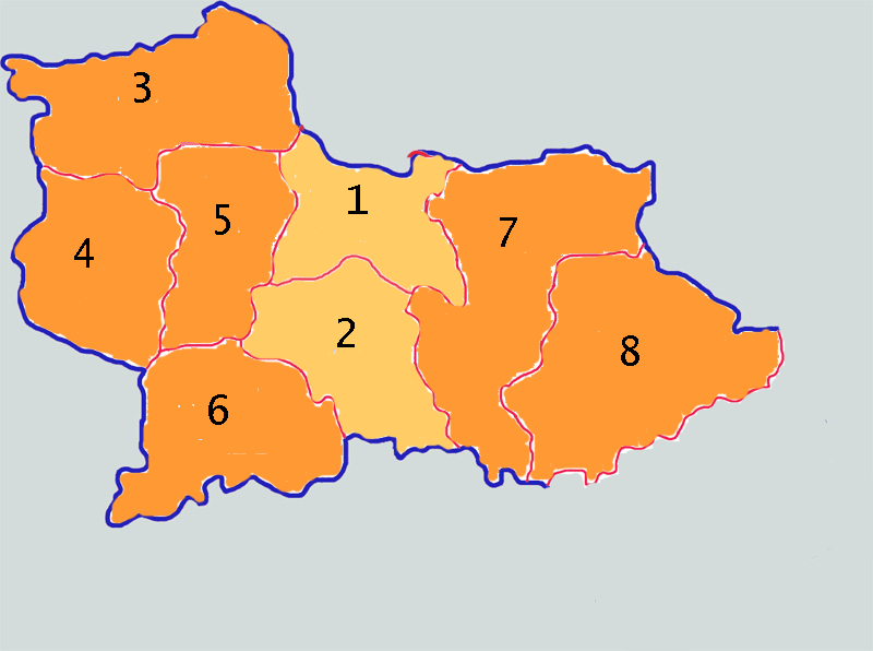 Municipalities of Shangqiu city, China